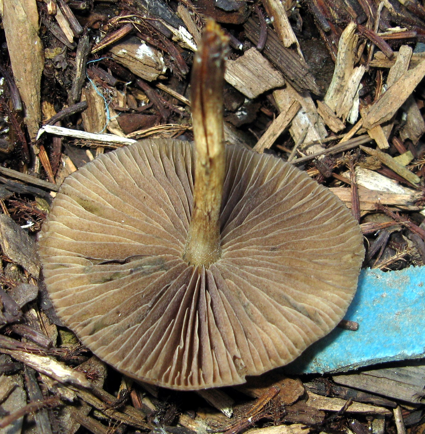 The gills of the hallucinogenic mushroom Psilocybe allenii Borov., Rockefeller & P.G.Werner. Specimen found in Mountain View, California, USA.